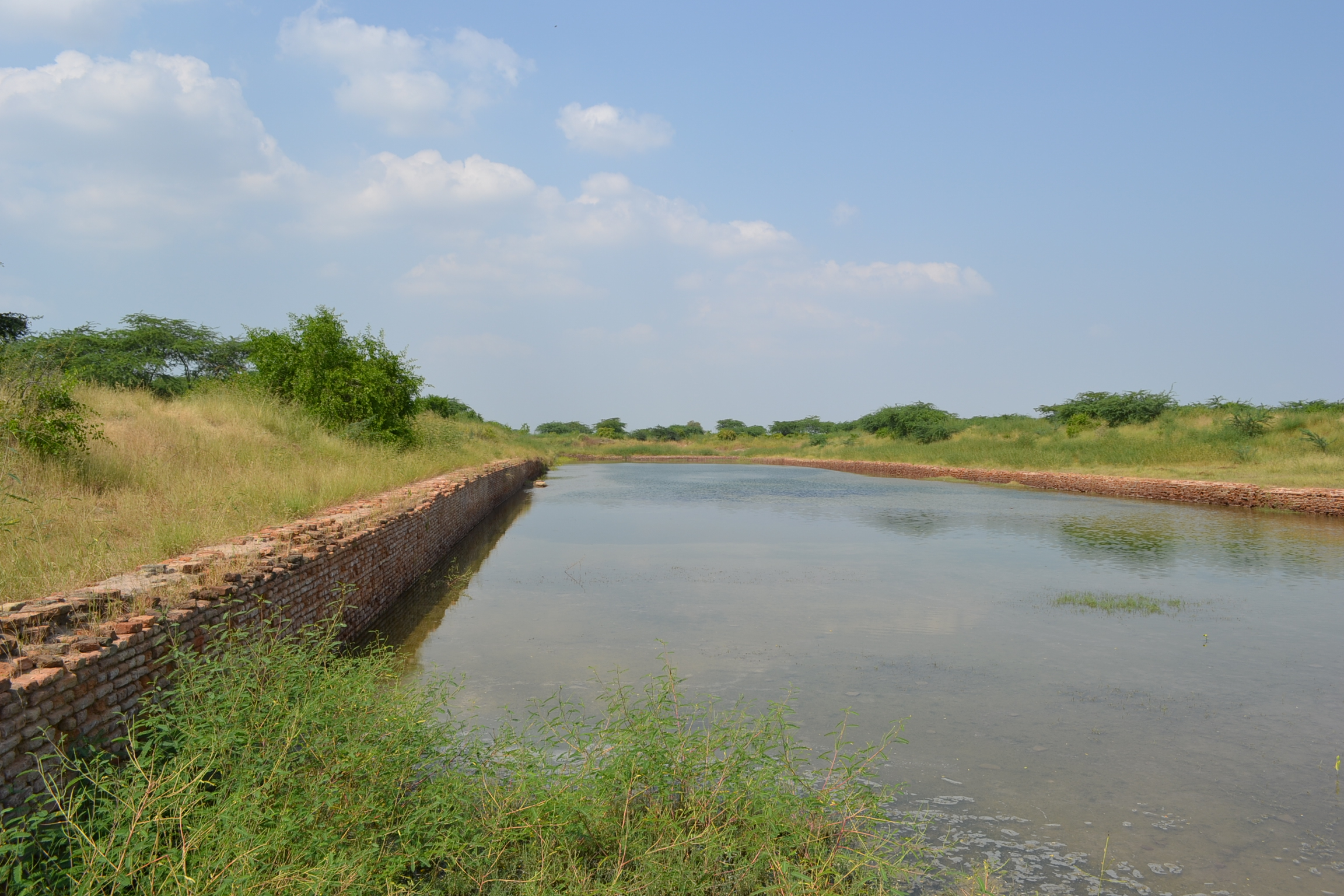 Dock at lothal site